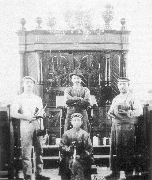 Synagogue of Nastätten (1904-1939) -Craftsmen in front of the Tora Ark